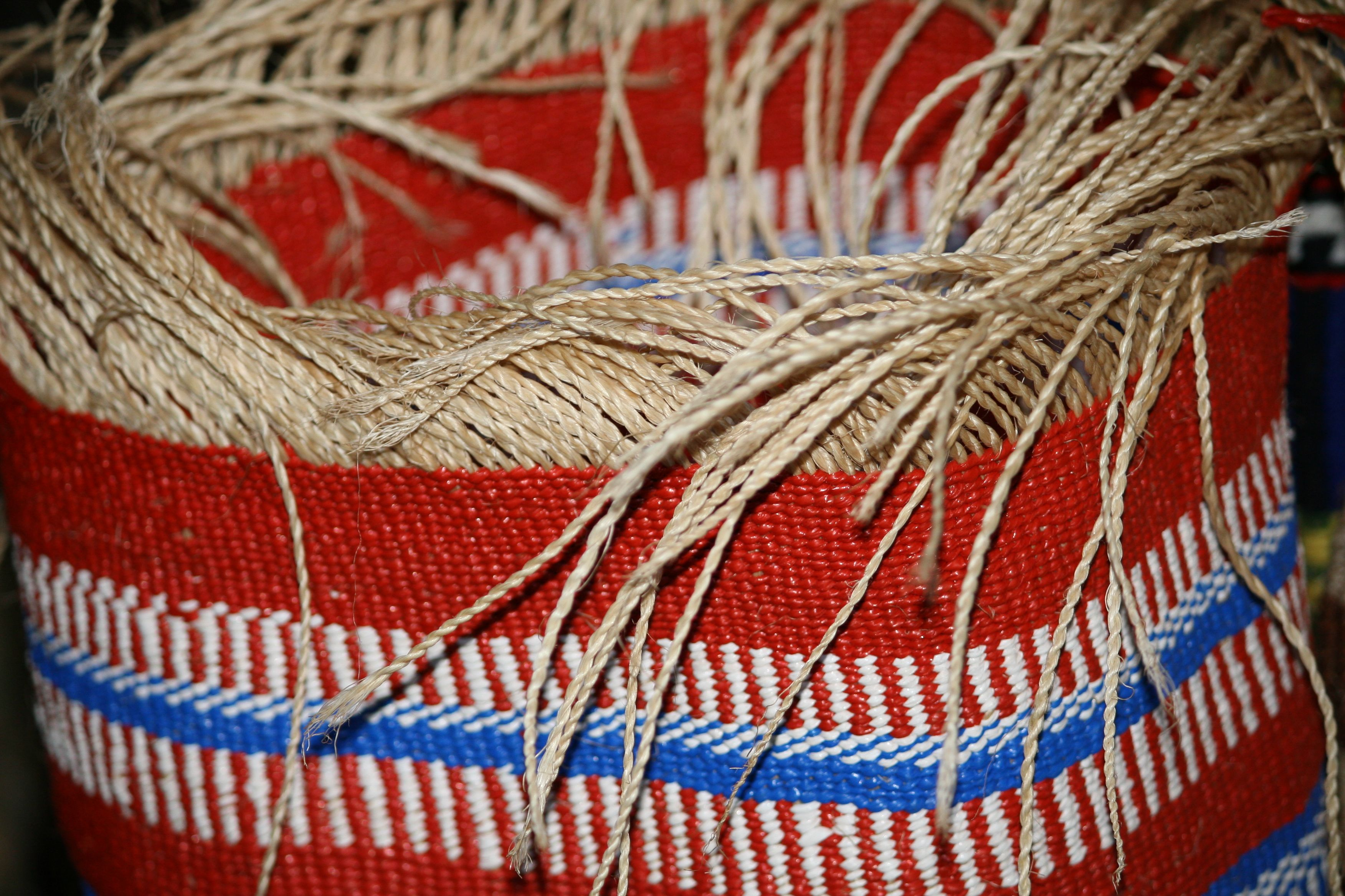 Kenya. Picture of a Sisal basket being woven This is an image of Cultural Fashion or Adornment from Kenya